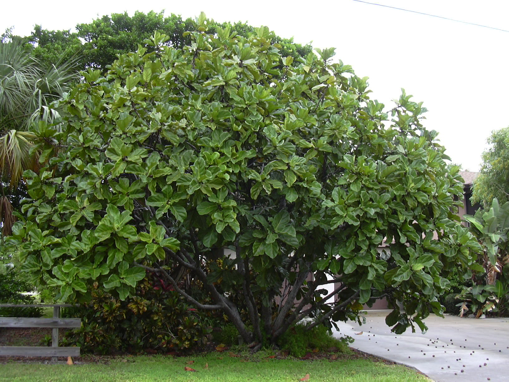 Ficus lyrata (habit). Location: Florida, Anna Maria